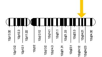 ALDH2 gene. Cytogenetic Location: 12q24.2 The ALDH2 gene is located on the long (q) arm of chromosome 12 at position 24.2. More precisely, the ALDH2 gene is located from base pair 111,766,886 to base pair 111,809,984 on chromosome 12.